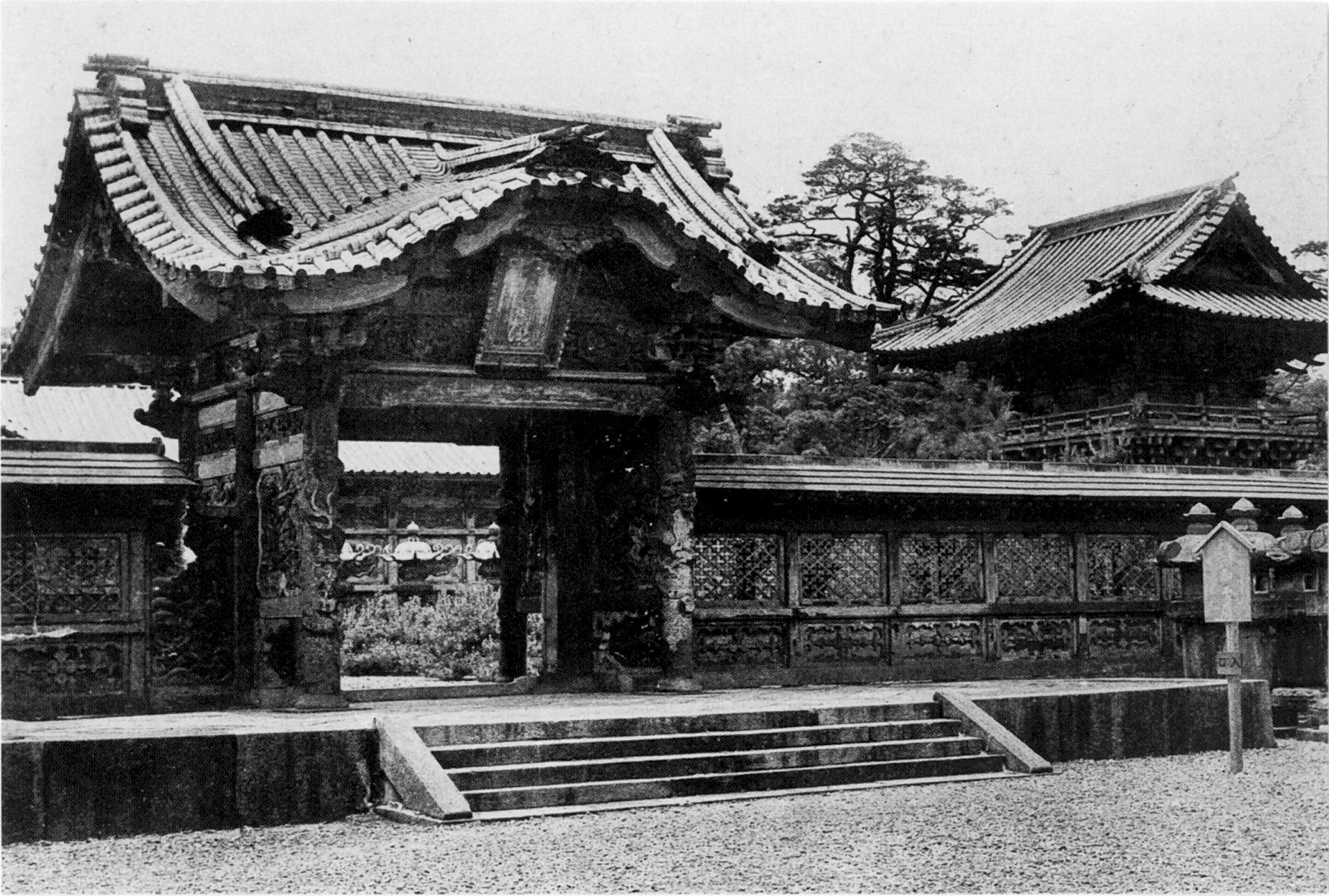 Photo of the Chokugaku Mon, a gate at Yūshōin, the mausoleum of Shōgun Tokugawa Ietsugu, located in Zōjōji, a temple in Shiba Park, Tokyo